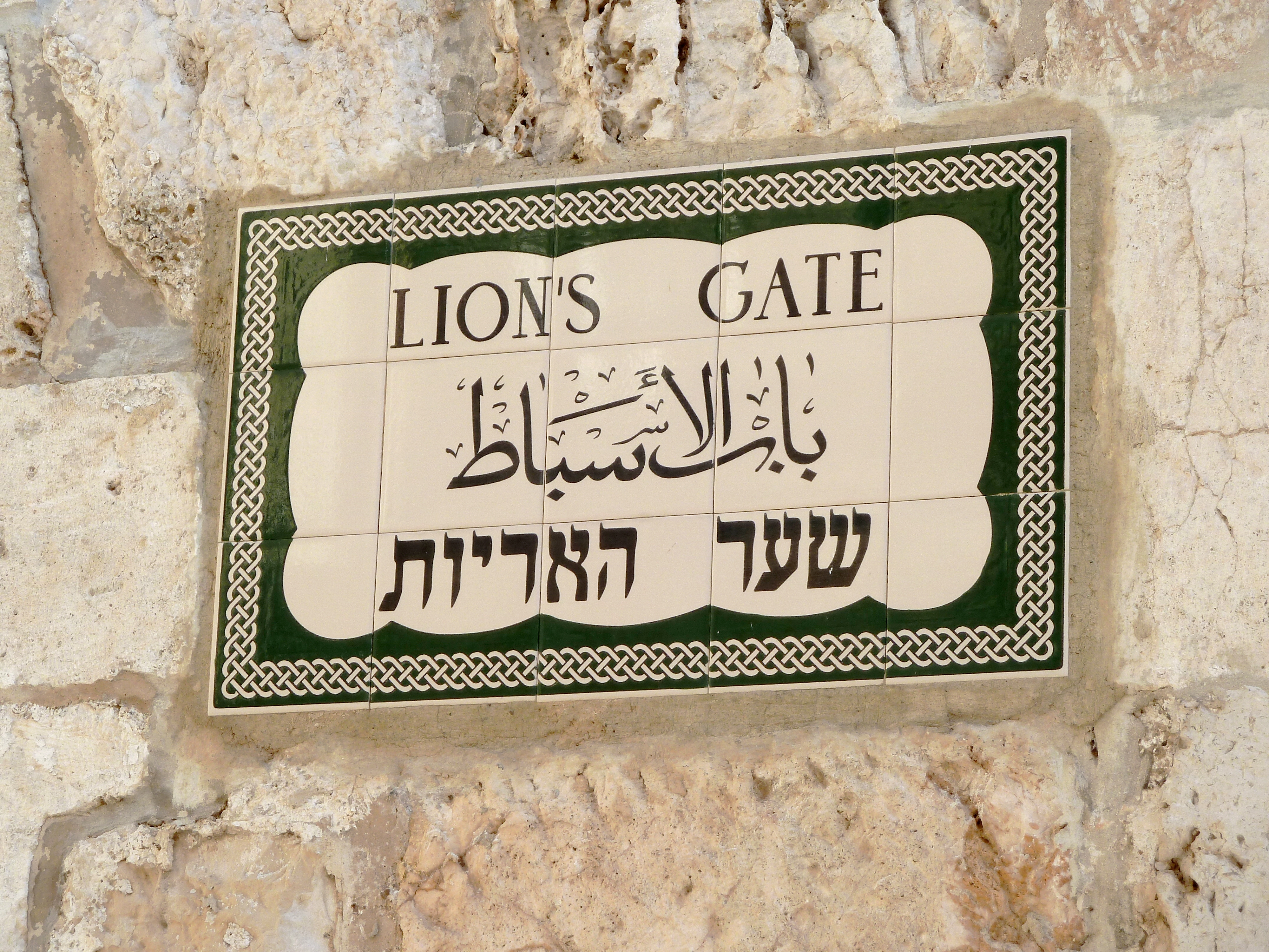 Old Jerusalem Lions Gate sign